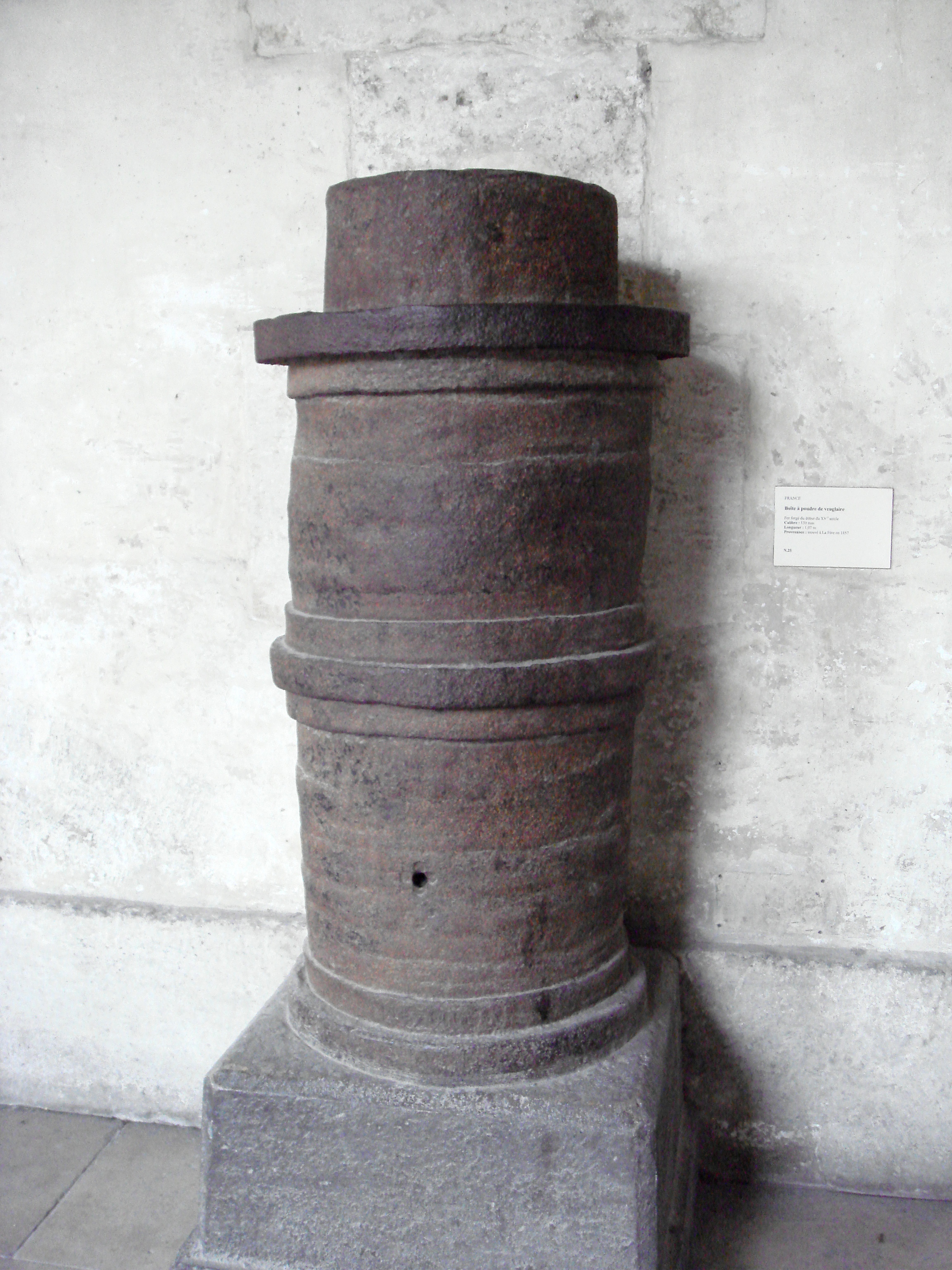 Veuglaire_powder_box_caliber_130_length_107_early_15th_century_La_Fere